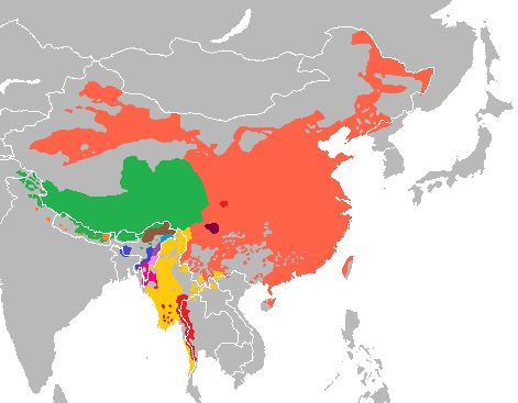 The extension of various branches of the Sino-Tibetan languages. The traditional paraphyletic "Tibeto-Burman" branch has been split up into its well-established components.